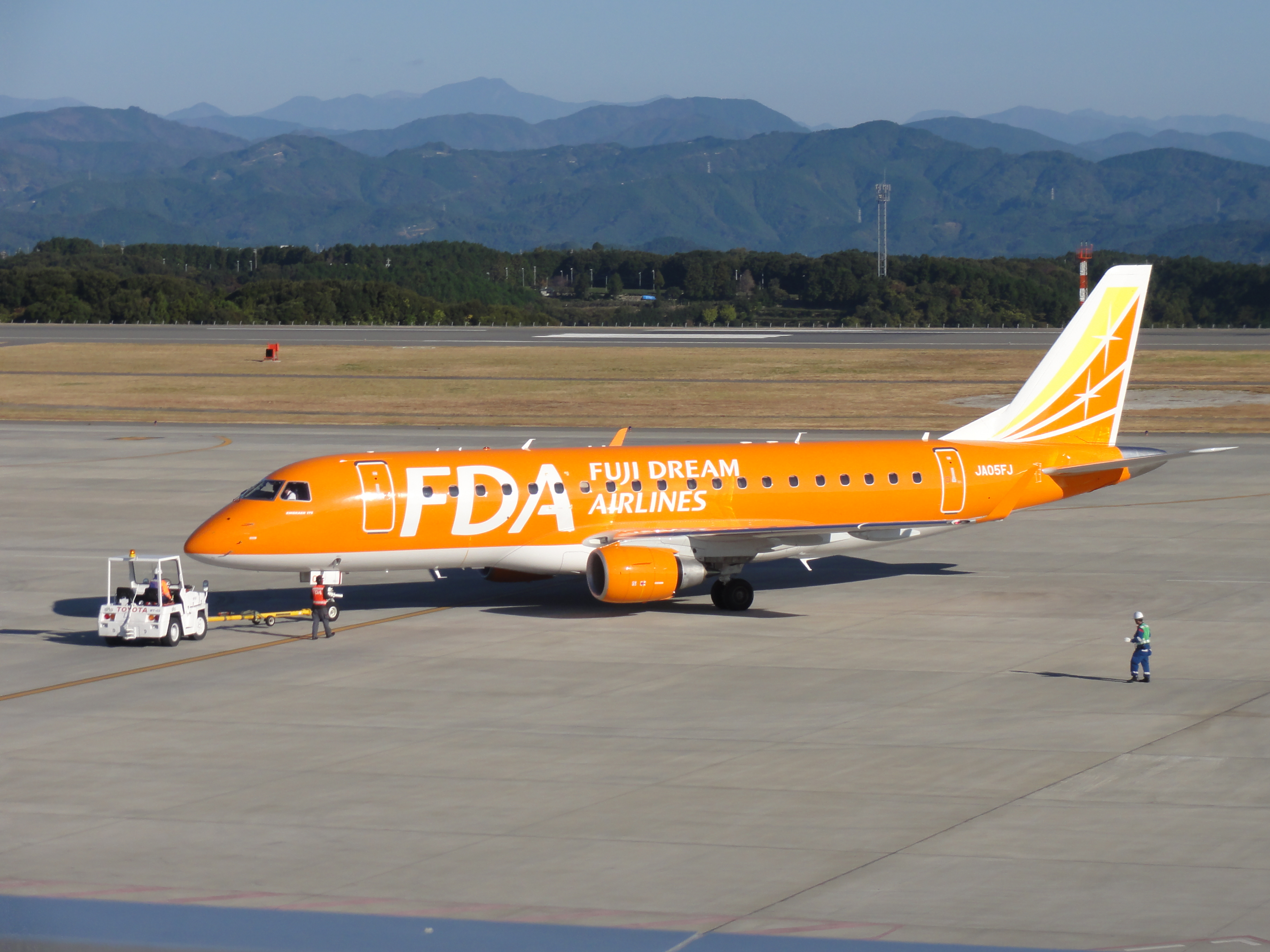 I took a picture in the Shizuoka airport, Japan